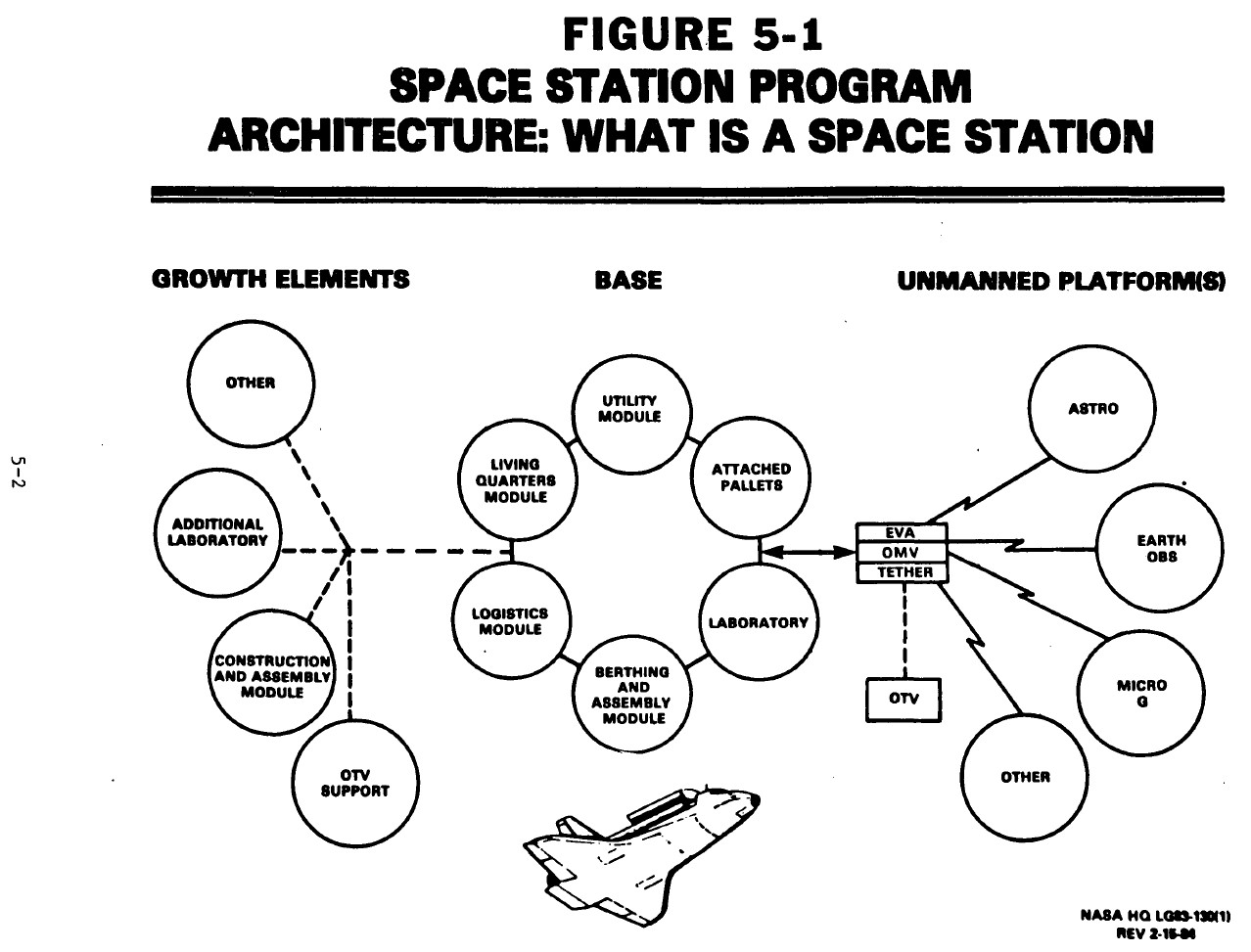 Screen shot from pdf.